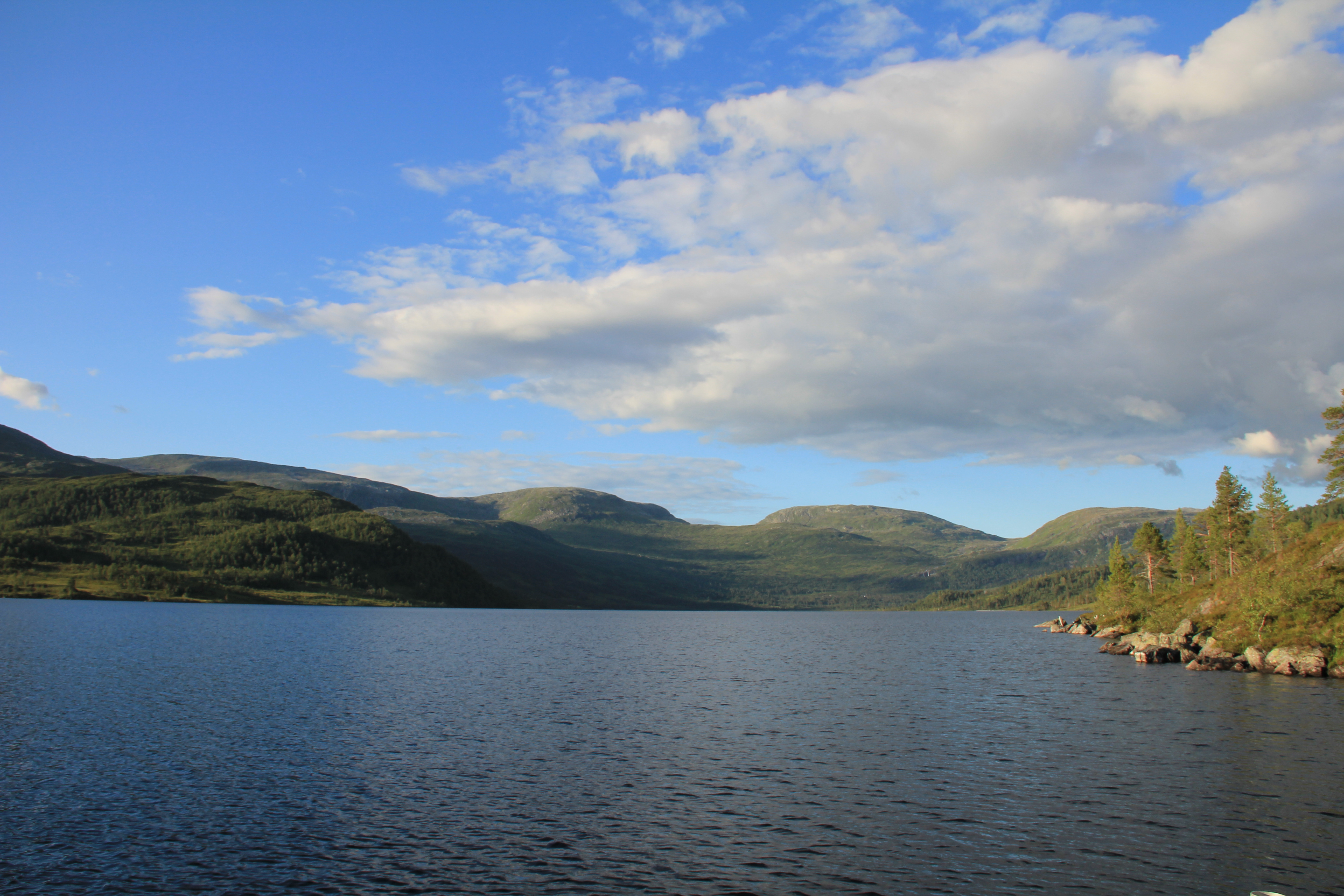 Storevatnet, a mountain lake in Gjengedal in Hyen, Gloppen